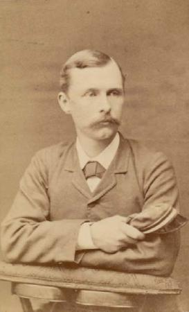 Baltic German geologist and Arctic explorer Eduard von Toll (1858–1902).